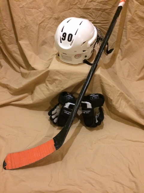 This image shows typical youth hockey equipment for a youth hockey player.